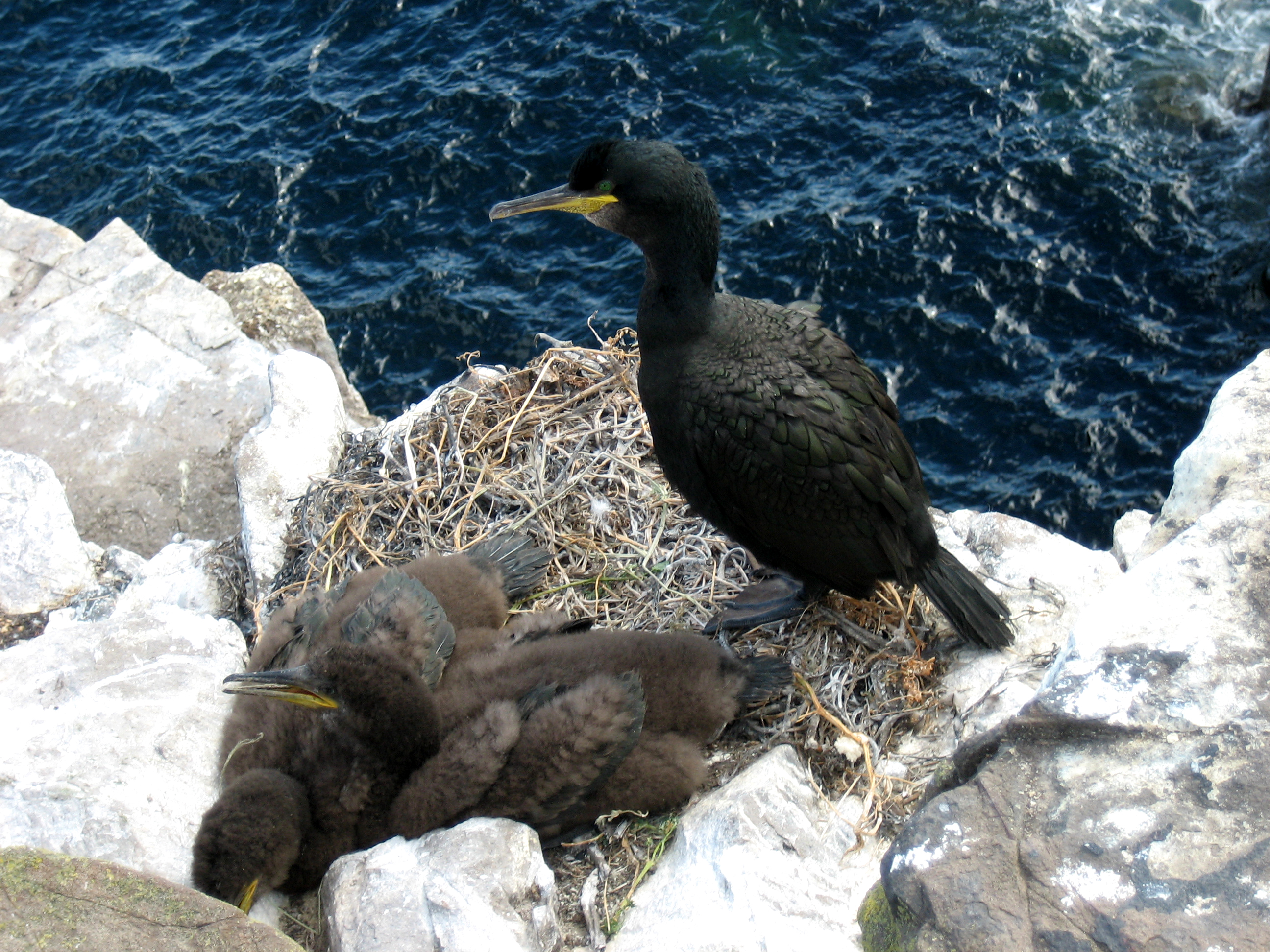 Phalacrocorax aristotelis at nest with well-grown chicks, Inner Farne, Farne Islands, Northumberland, UK